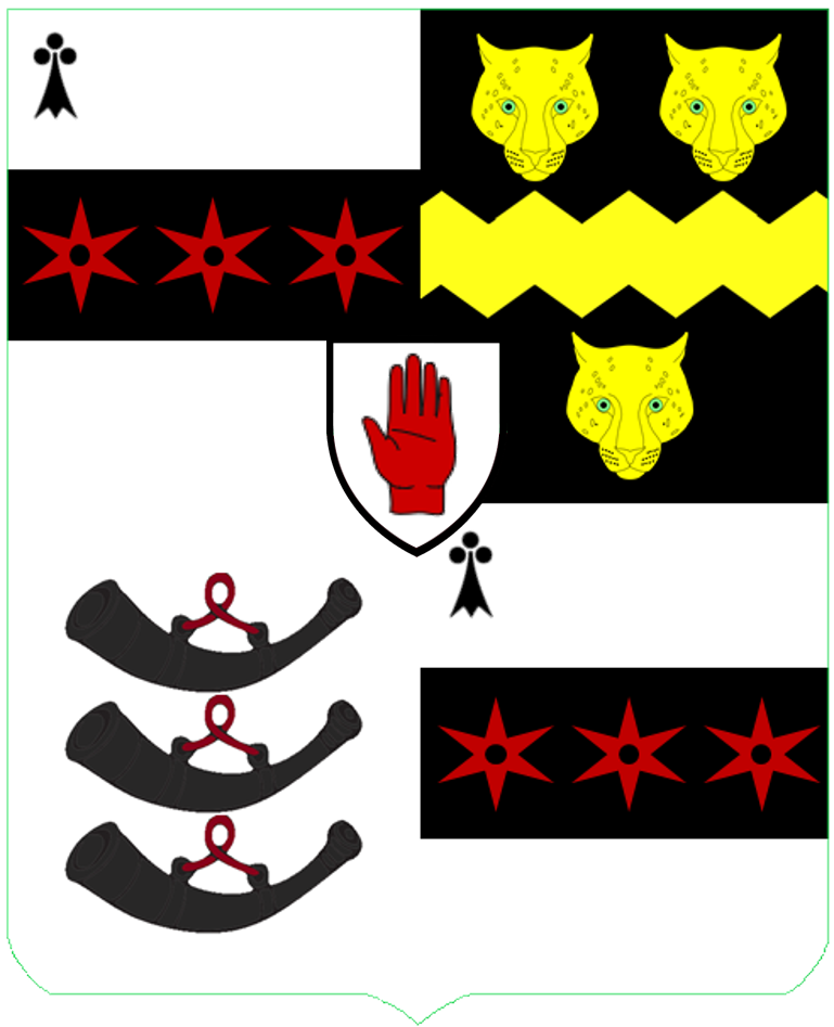 Shield of arms of The Lord Grimston of Westbury